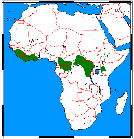 Range map for Giant Forest Hog (Hylochoerus meinertzhageni), made by me with help of Map depending on the range map at IUCN red list.